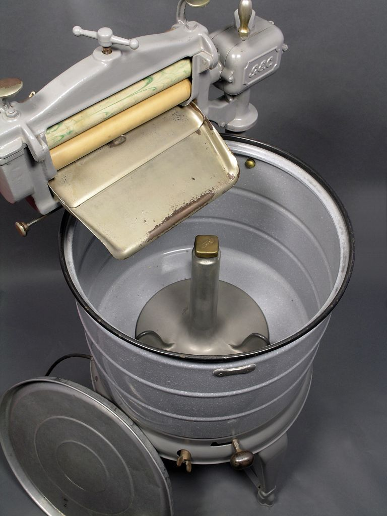 Editing Undertaken: Auto Levels, Auto Contrast, Unsharp Mask